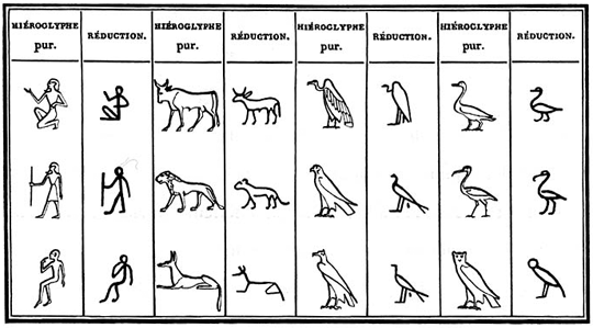 A page of a notebook written by Champollion